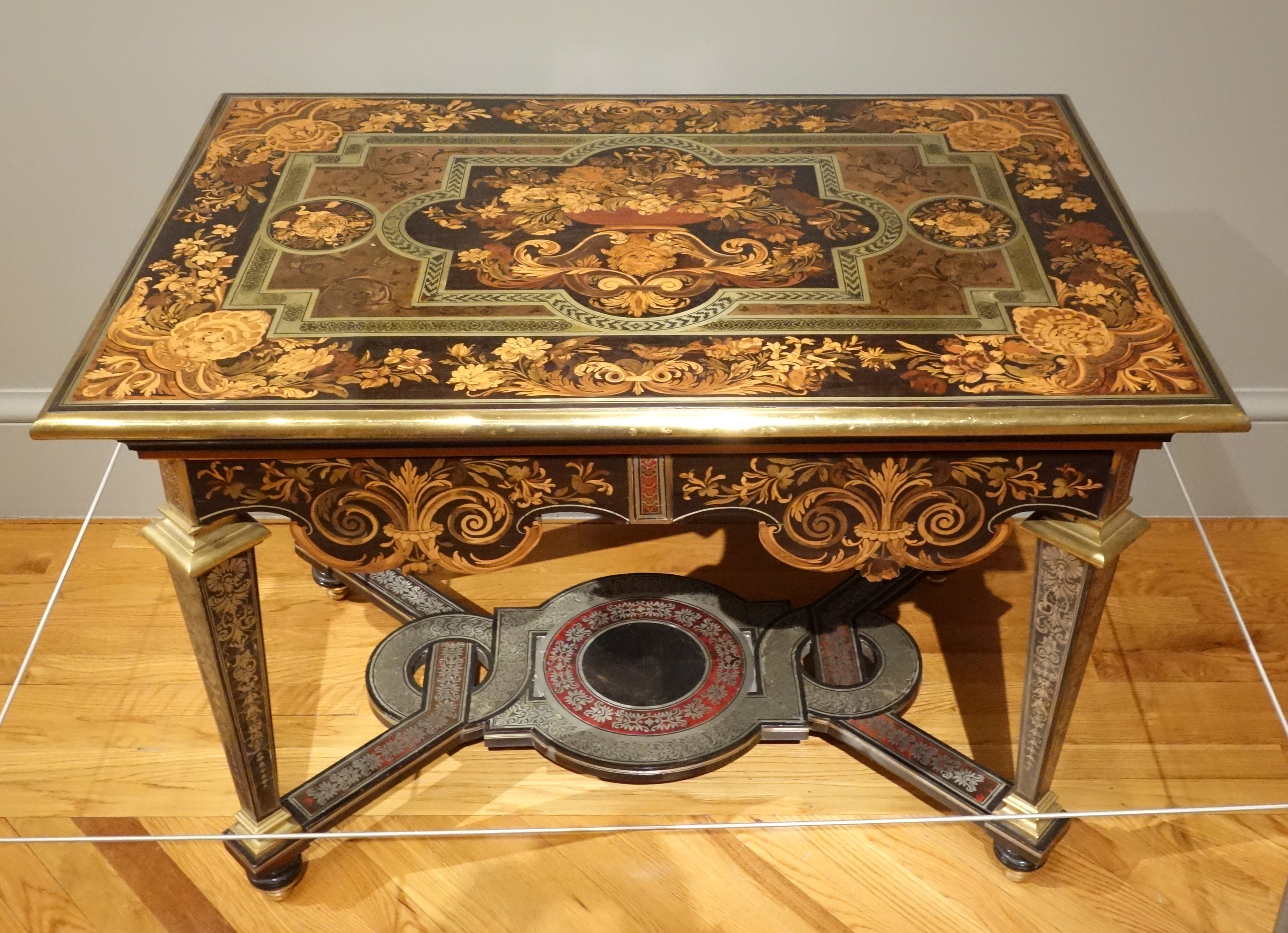 Exhibit in the California Palace of the Legion of Honor, San Francisco, California, USA. This work is old enough so that it is in the public domain.